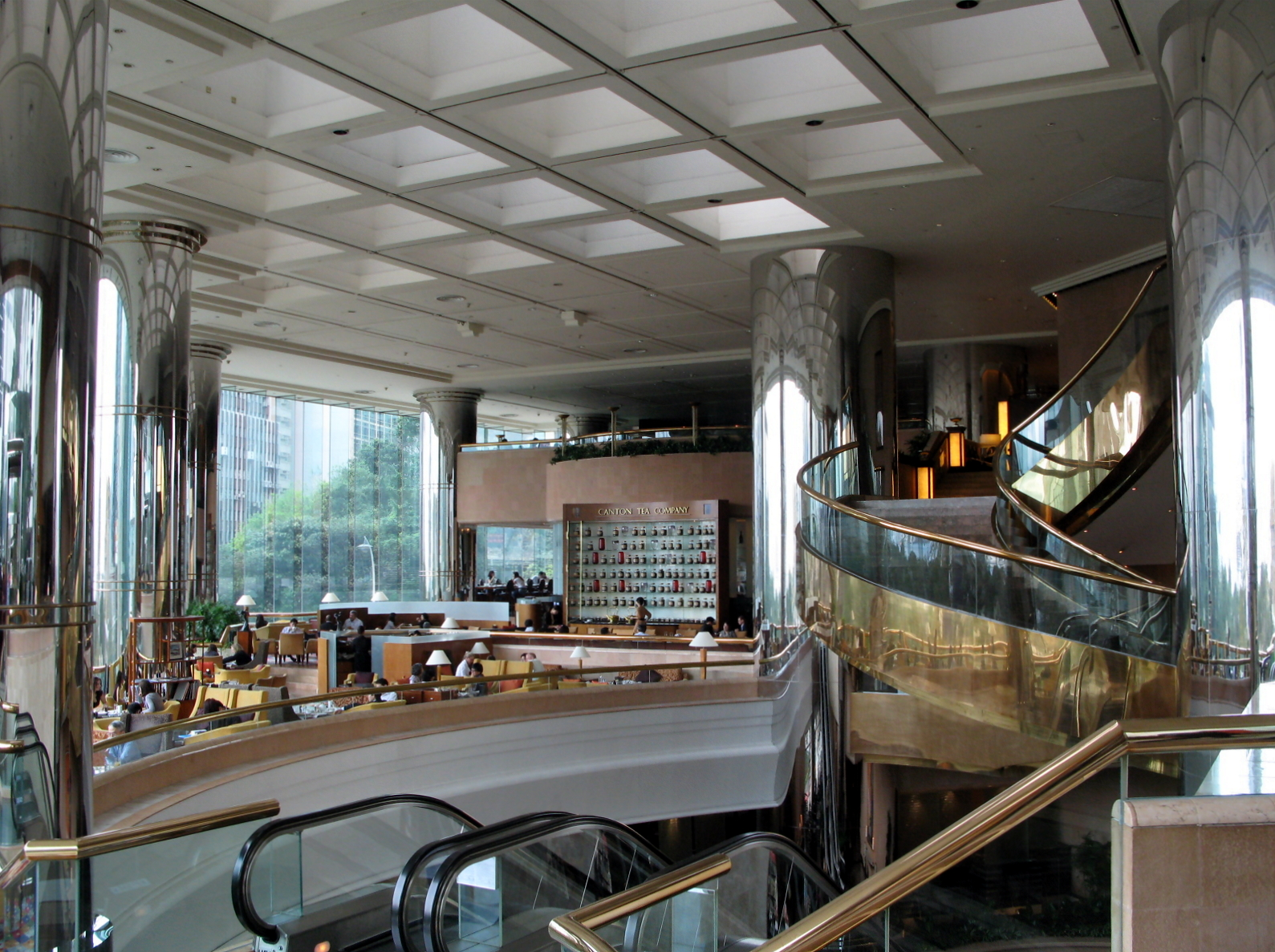 J.W. Marriott Hotel Lobby